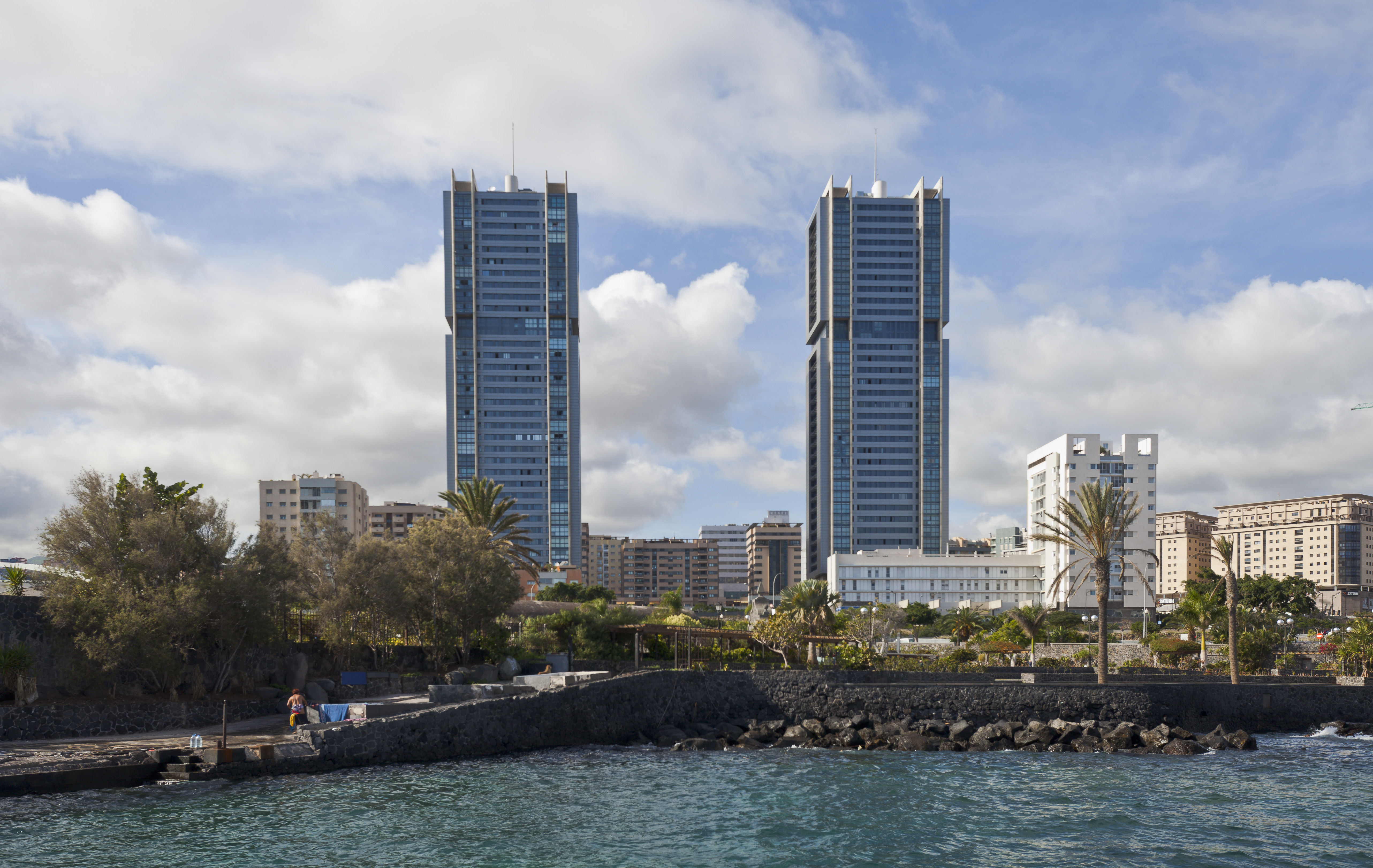 Towers of Santa Cruz, Santa Cruz de Tenerife, Spain